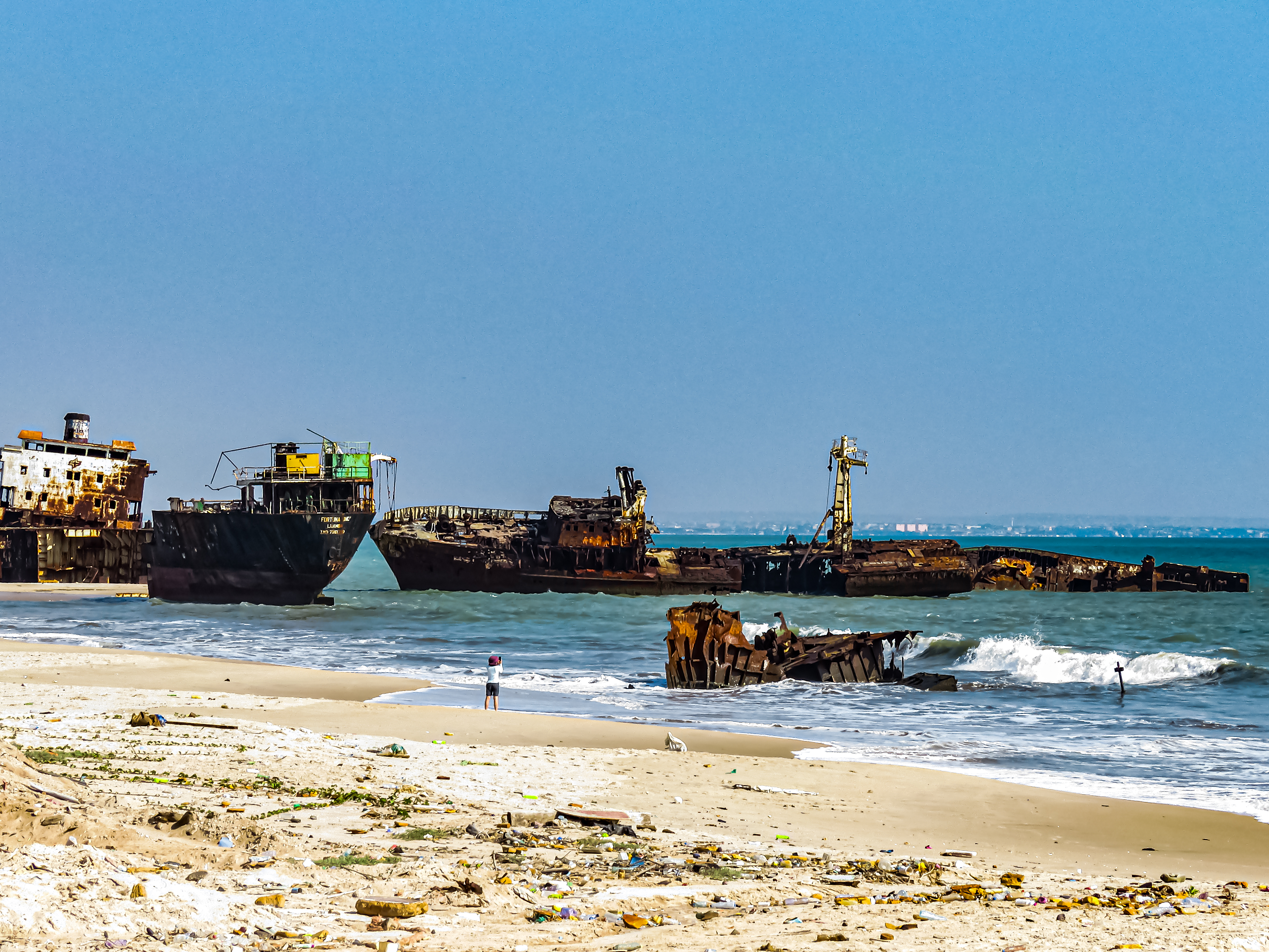 Portuguese stranded deep sea-takers 1975, striped for scrap metal, due to lack of money and food near to Luanda This is an image with the theme "Africa on the Move or Transport" from: Angola